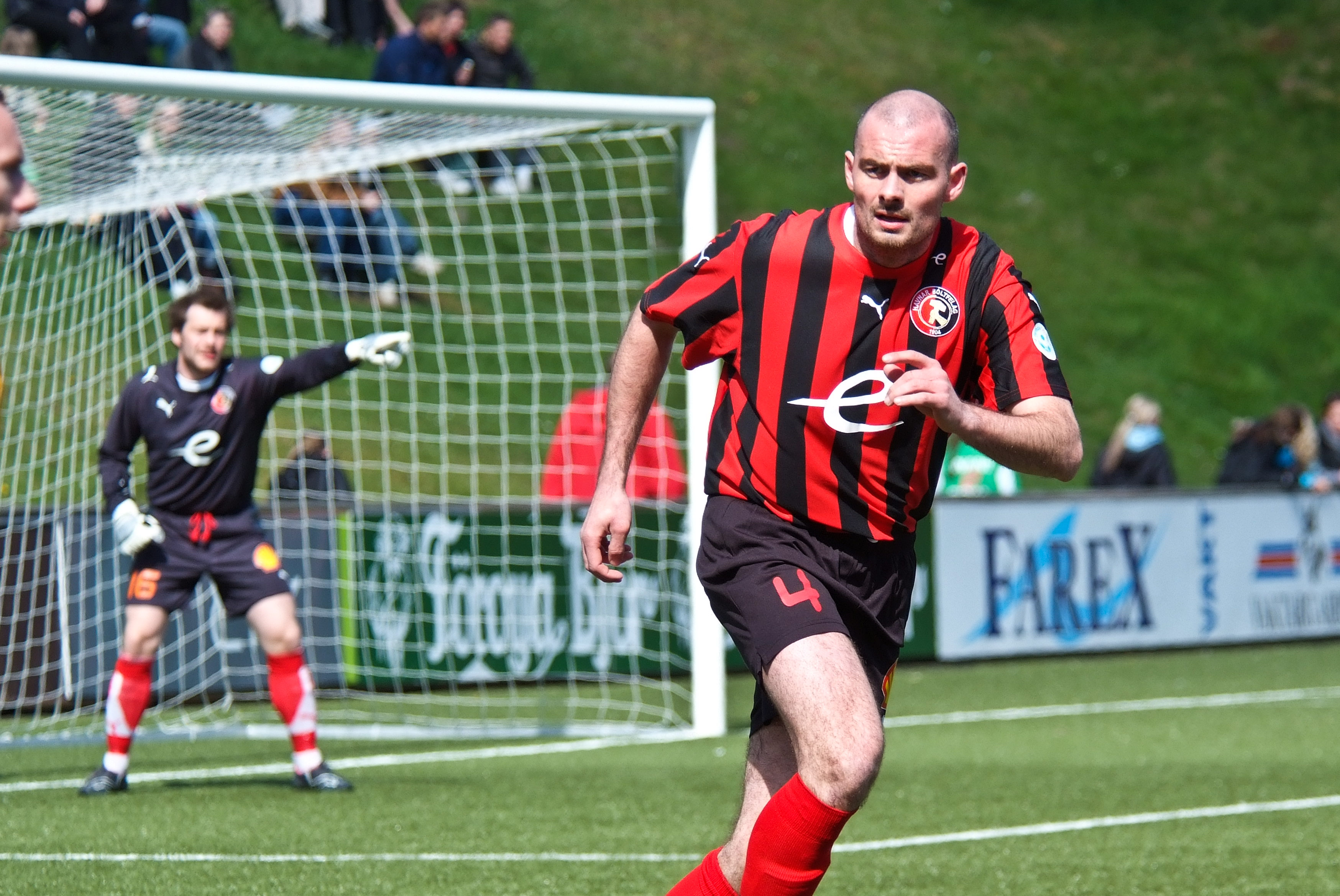 Hans á Lag, faroese football player, while playing for HB Tórshavn